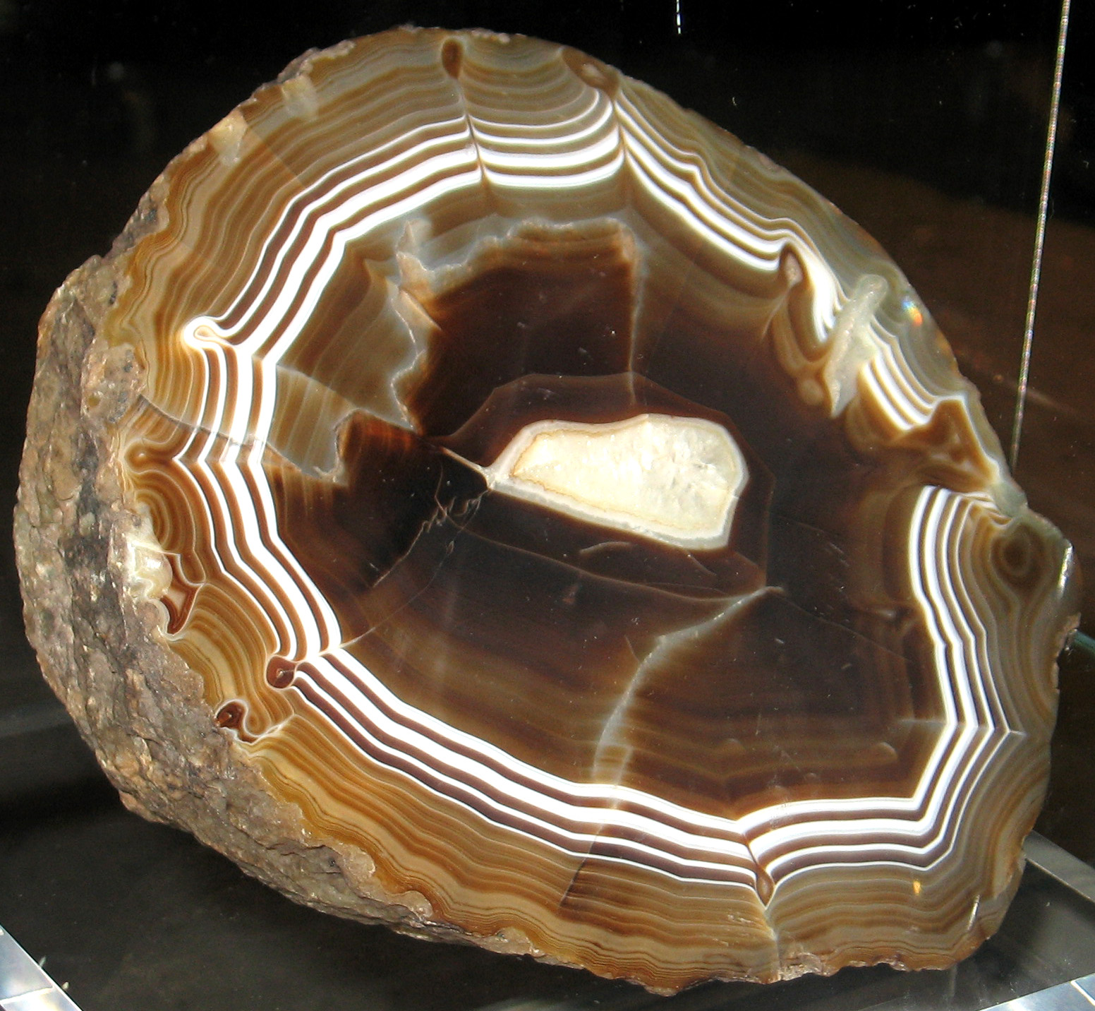 Agate from Brazil. (public display, Carnegie Museum of Natural History, Pittsburgh, Pennsylvania, USA) "Agate" is a rockhound/collector term for irregularly- & concentrically-layered masses of microcrystalline quartz. Individual layers consist of translucent or opaque, microcrystalline, fibrous quartz called chalcedony. Impurities in different layers cause variations in color. Many agate masses are simply geodes that have completely filled up with quartz. Common agate colors are clearish-whitish-grayish, brownish-red, and yellowish-brown. Commercial agates that occur in greens and blues and purples are almost always dyed (faked). The whitish, glassy material at the center of this specimen is macrocrystalline quartz.